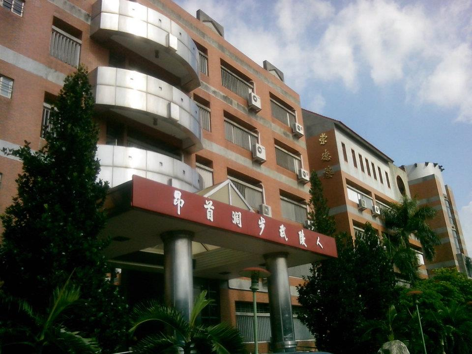 the photo of Wuling senior high school